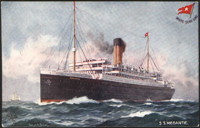 A postcard of the Megantic (White Star Line)